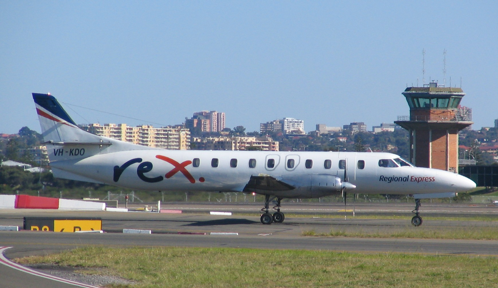 Regional Express Metro 23 at Sydney airport (VH-KDO of Kendell Airlines)